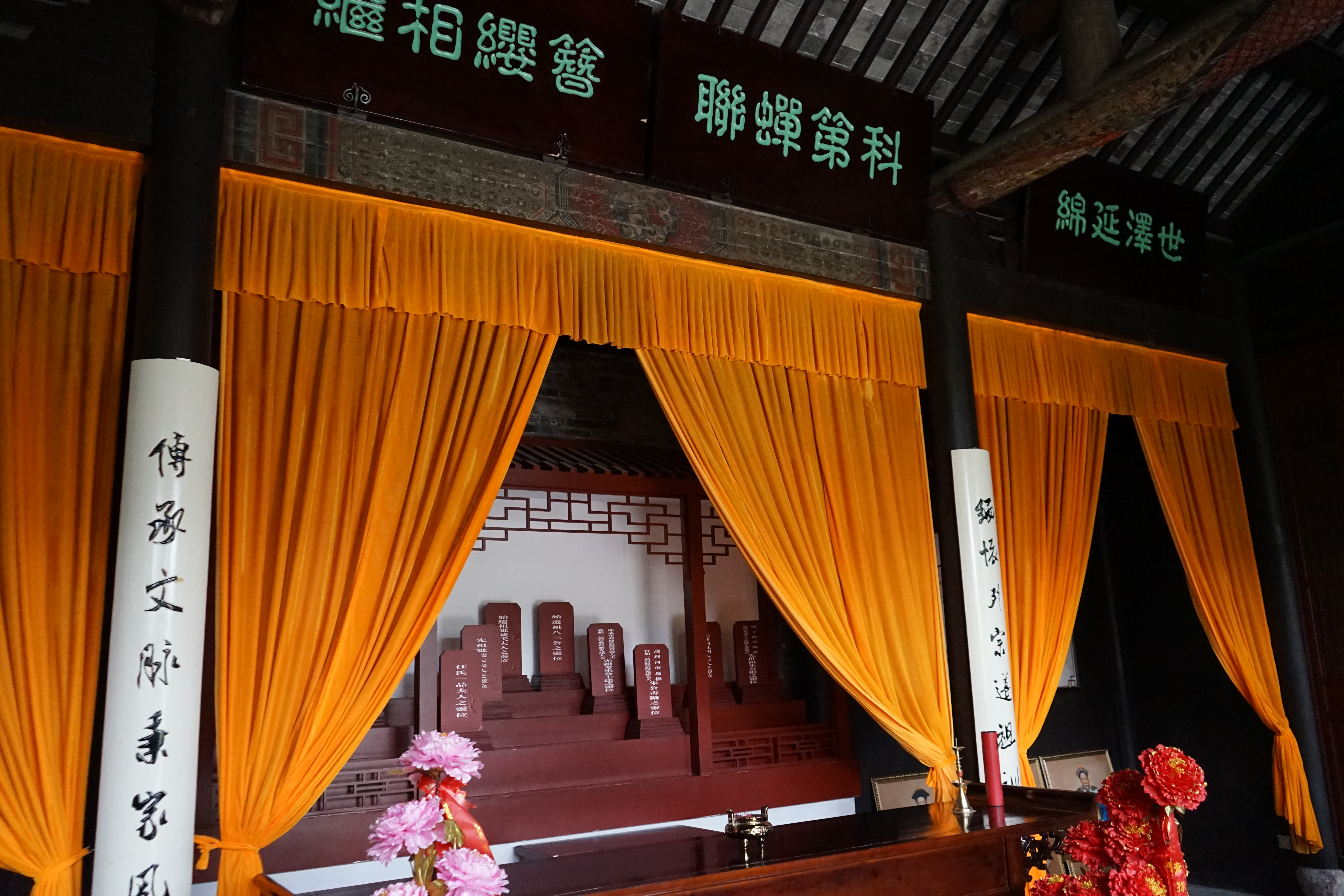 Yilu Hall interior, Zhu's Ancestral Hall, Baoying County